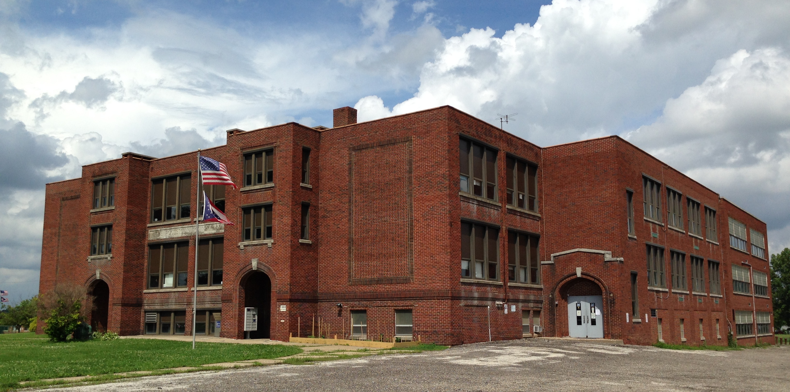 Front view of Rootstown Middle School in Rootstown, Ohio, United States.